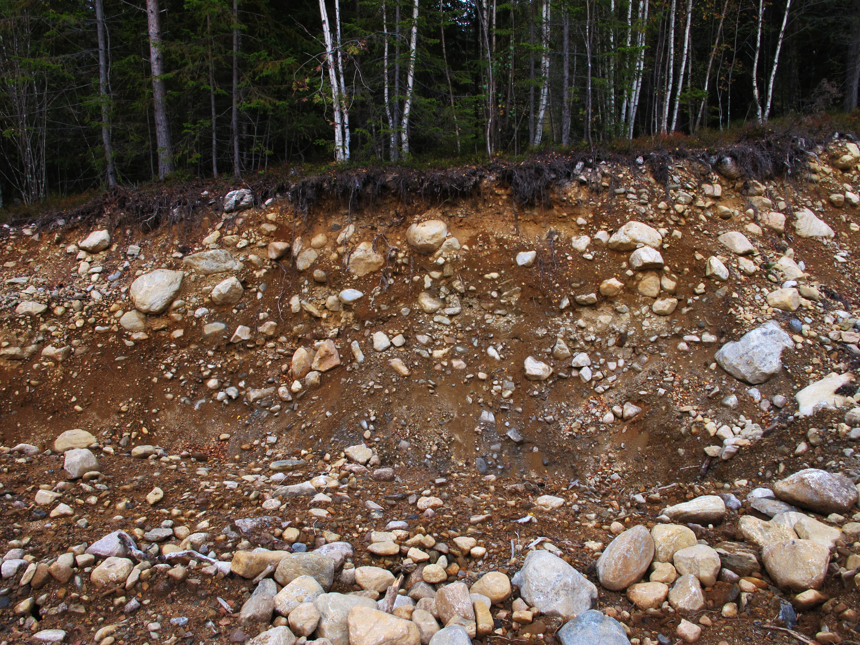 Morenejord